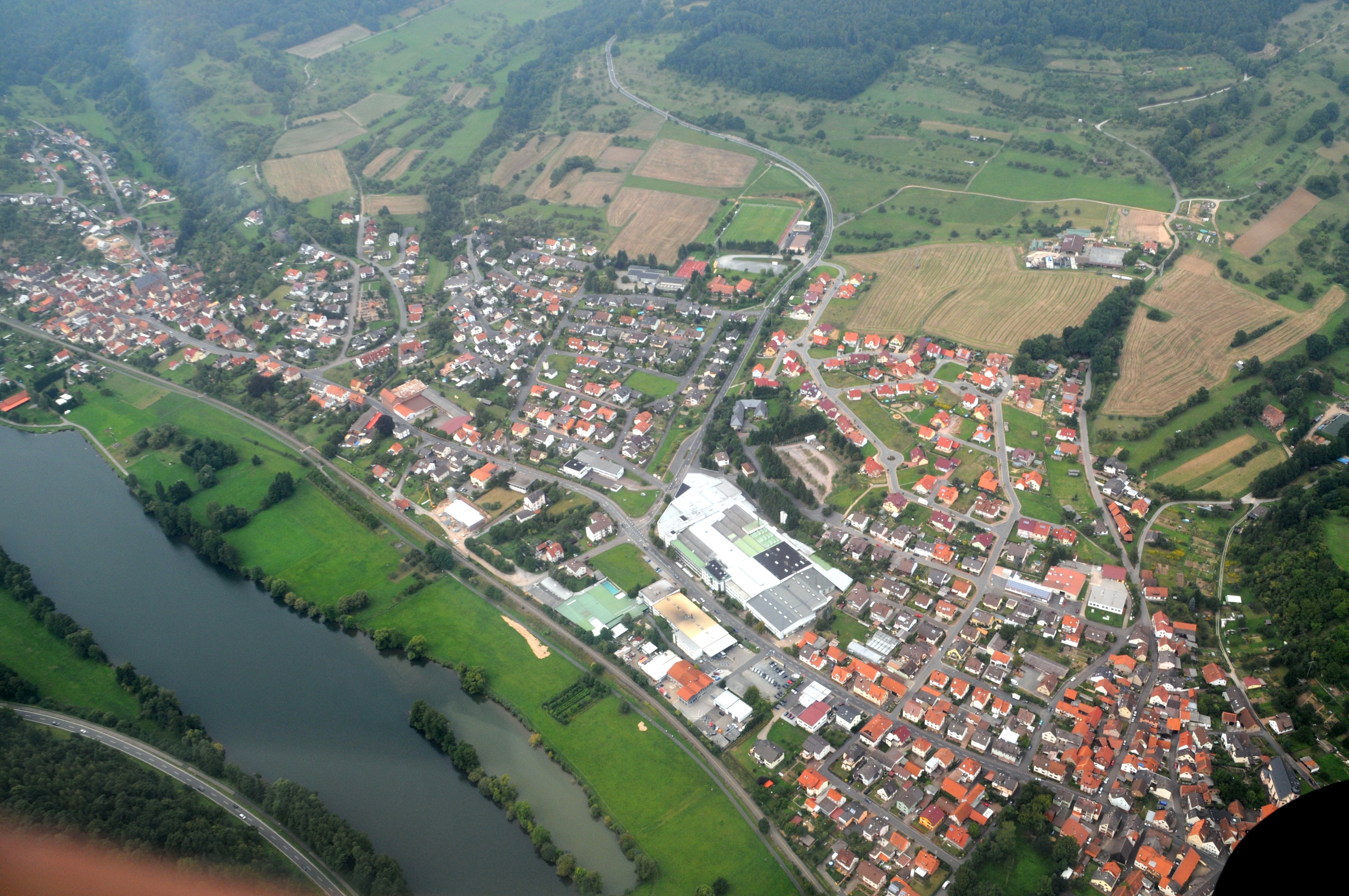 Collenberg, Bavaria, Germany, aerial photograph